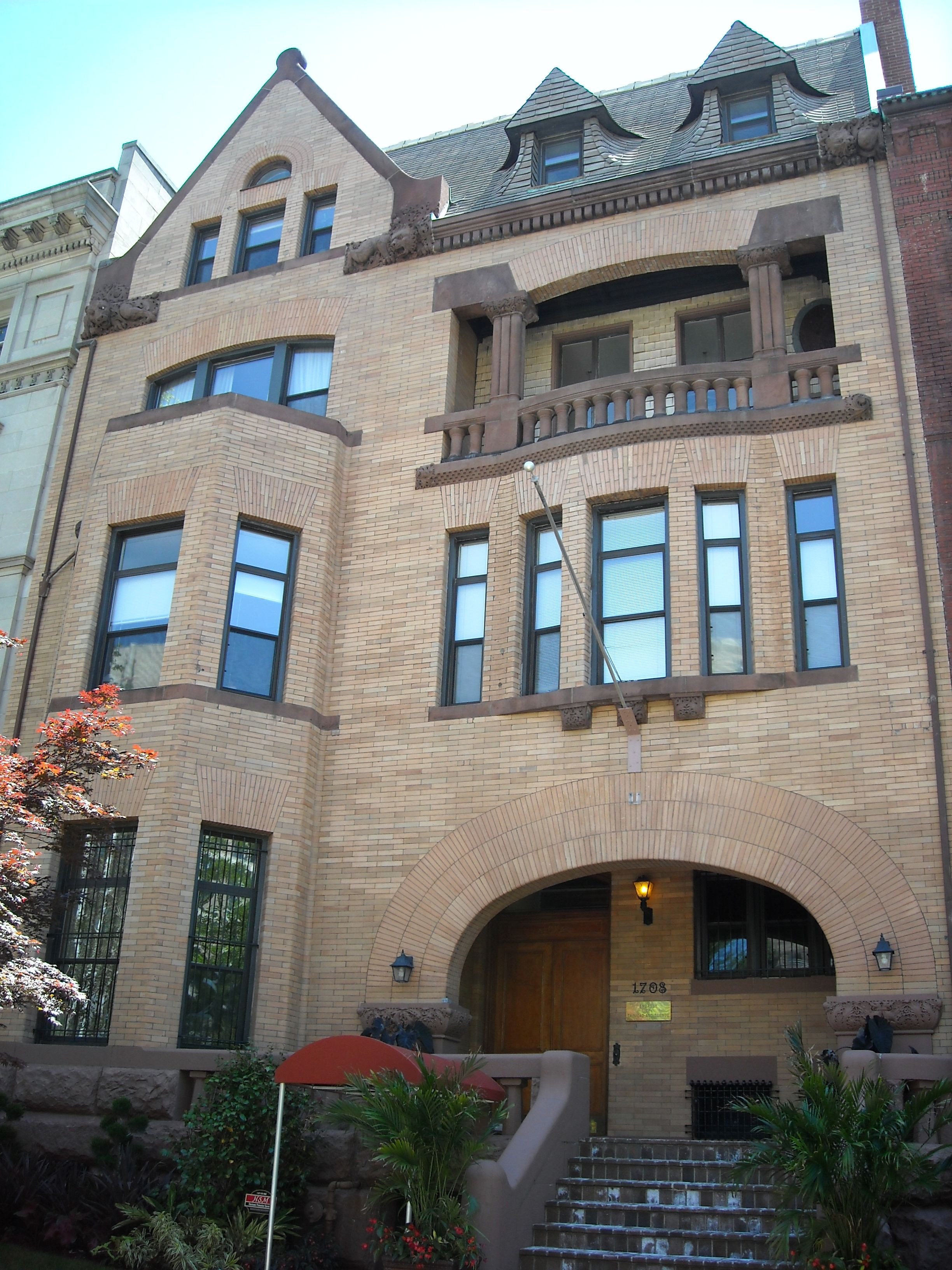 Embassy of Trinidad and Tobago to the United States. Located in Washington, D.C.